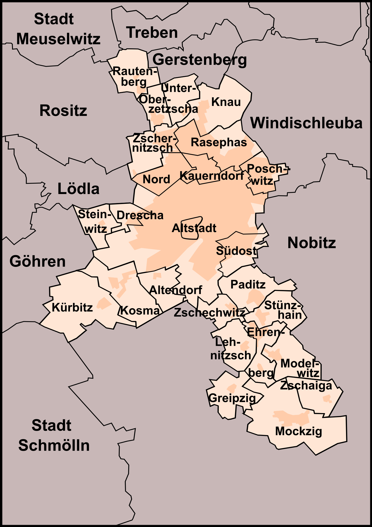 Districts of the thuringian city Altenburg in 2009.